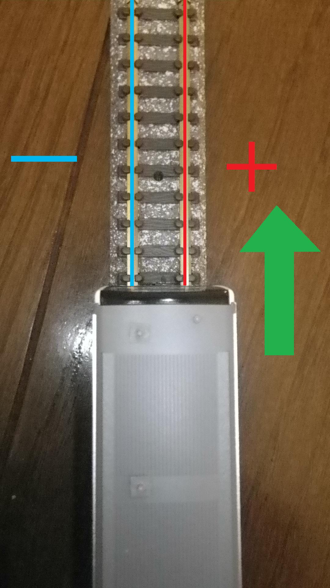 In two direct current line type of the model train set, it is an explanation photograph of the right side flow of the electricity of the plus and the advancement at the case.